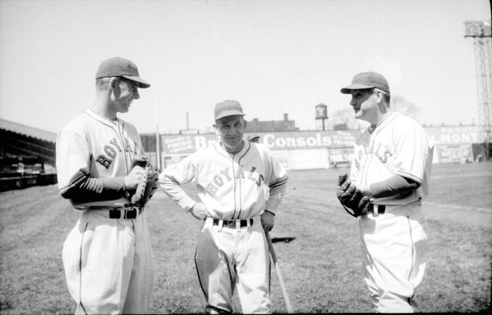 For documentary purposes the original description provided by BAnQ has been retained. Additional descriptive text may be added by Wikimedians with the wiki description = parameter, but please do not modify the other fields.